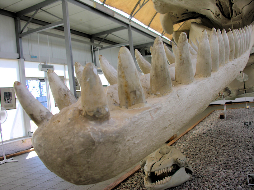 "Baltic" sperm whale in the Museum of the World Ocean, Kalinigrad. Mandible.